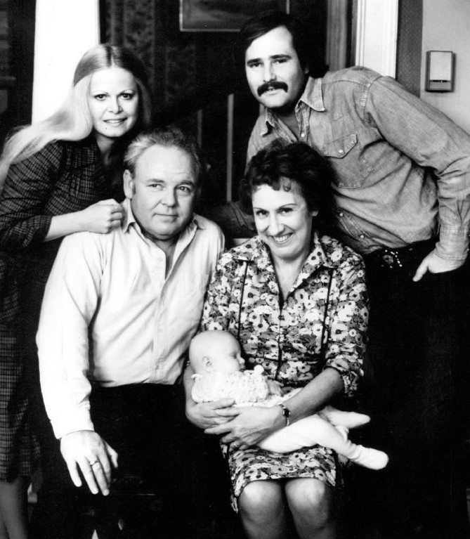 Photo of the Cast of the television program All in the Family. Standing are Sally Struthers (Gloria) and Rob Reiner (Michael); seated are Archie (Carroll O'Connor) and Edith (Jean Stapleton), who is holding the child who played the Bunker's grandson, Joey.